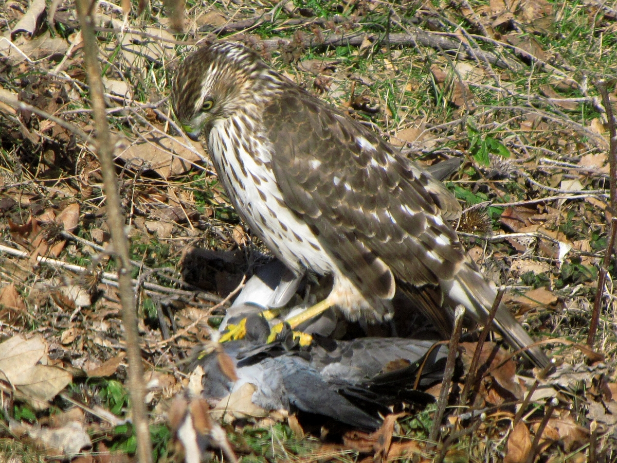 Juvenile female Cooper's Hawk which had just captured a Rock Pigeon - Cross Plains. WI USA